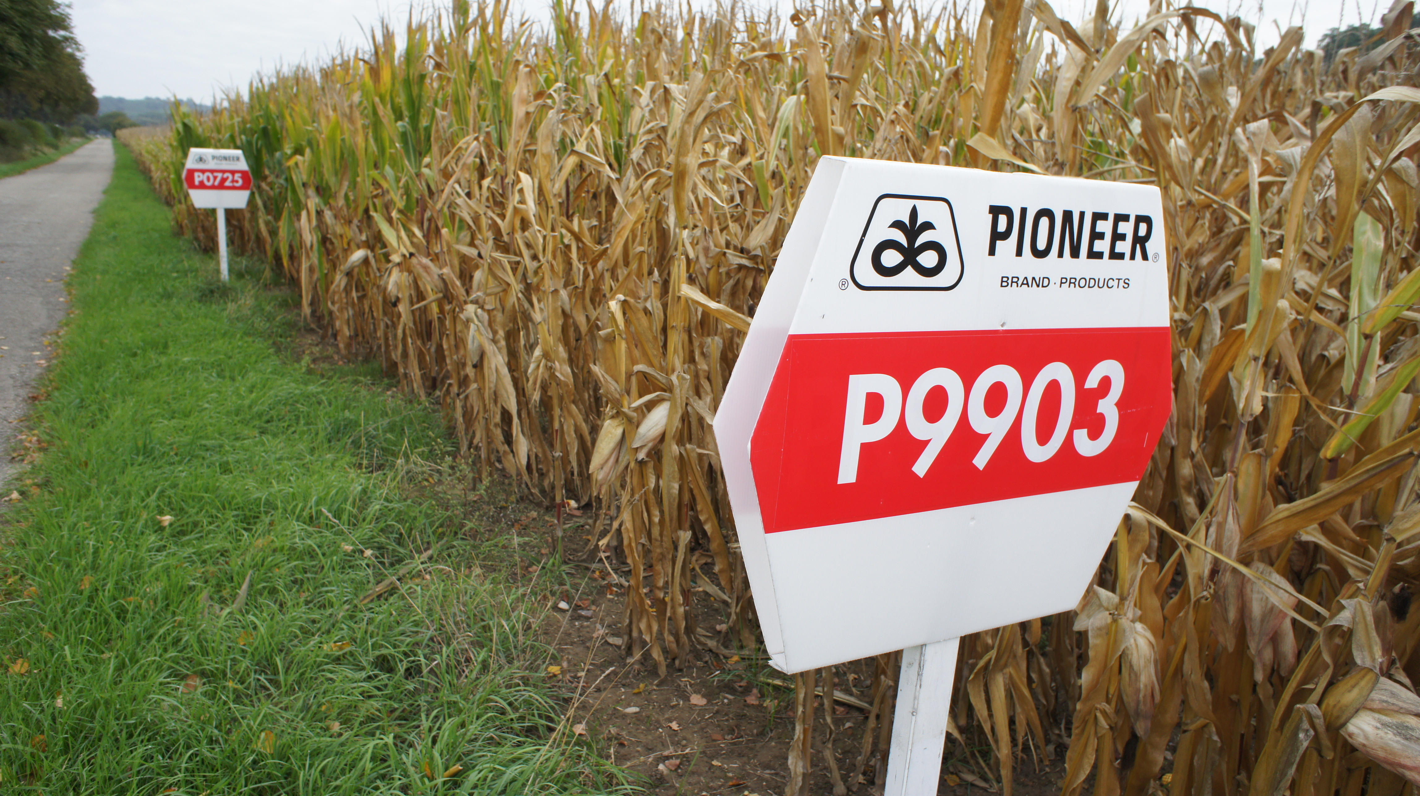 Pioneer is testing different corn seeds in Germany